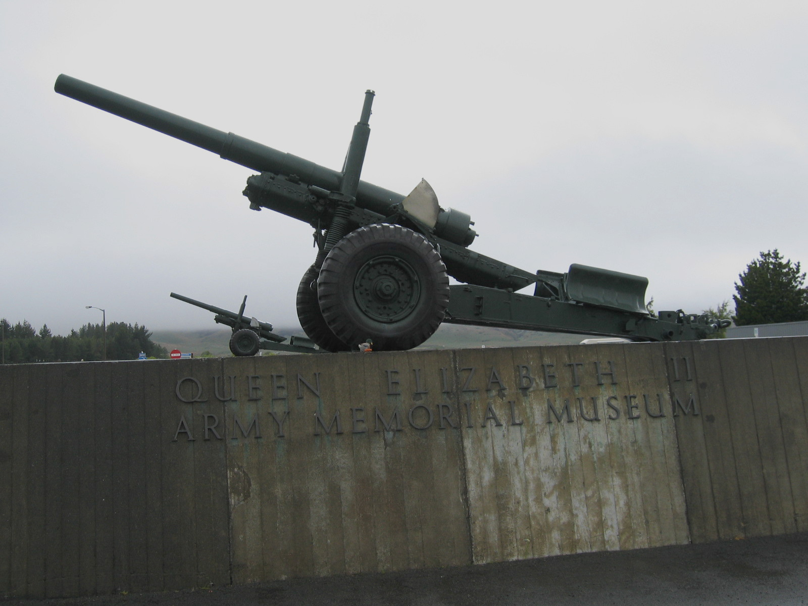 Photograph of 2 BL 5.5 inch field guns outside the entrance of the Queen Elizabeth II Army Memorial Museum, Waiouru, New Zealand.